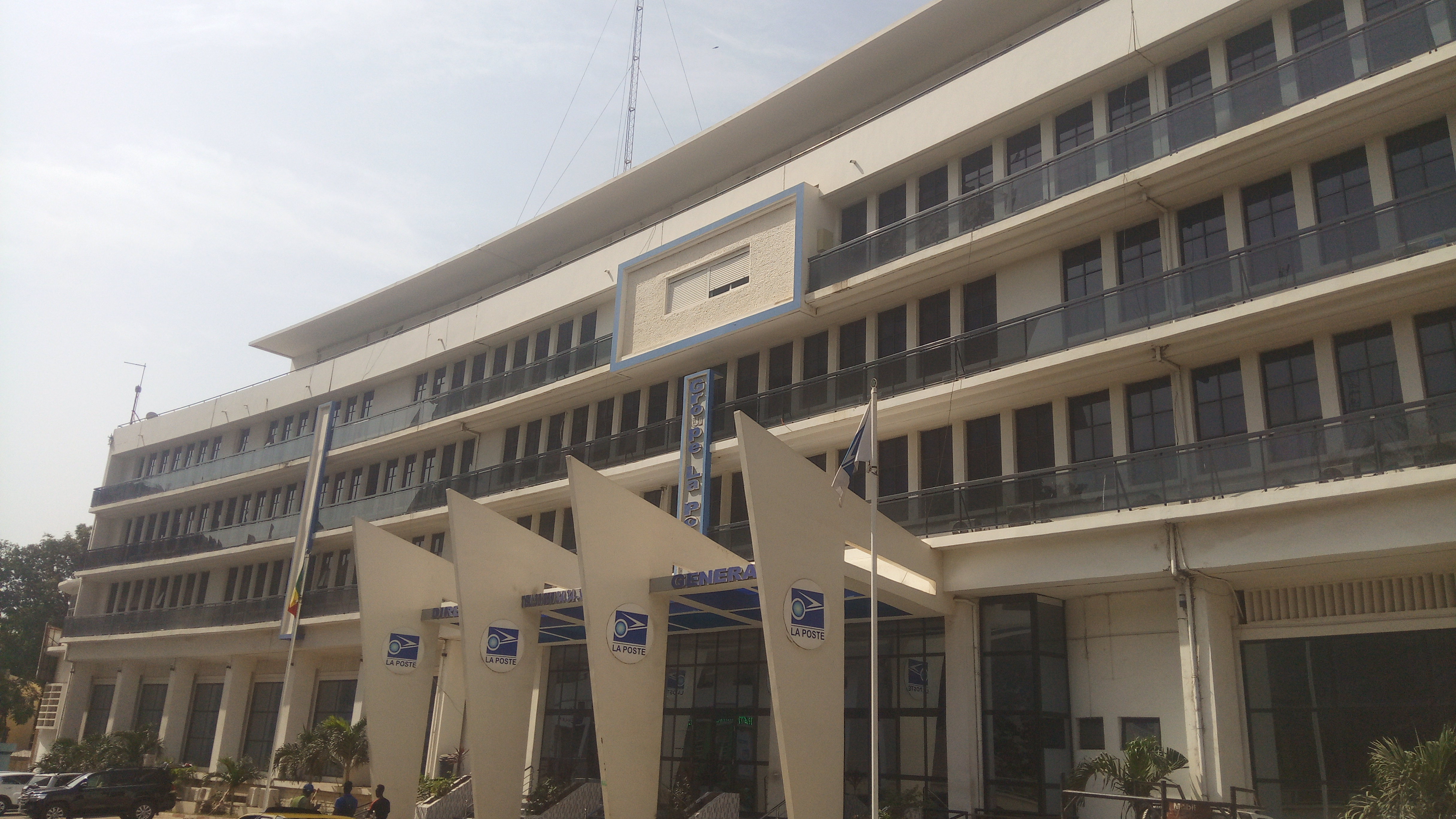 Facade de la direction Générale de La Poste sise au 06 Abdoulaye seck Marie Parsine X Avenue Peytavin à Dakar